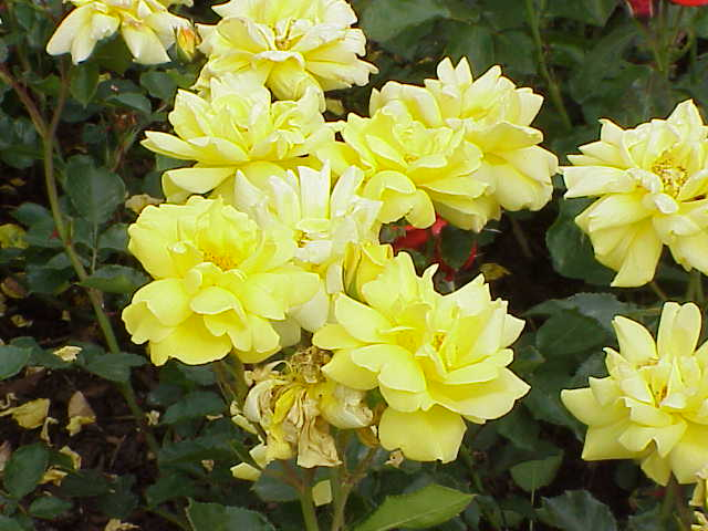 Species: Rosa sp. Family: Rosaceae Cultivar: Allgold, Le Grice 1957 Image No. 29